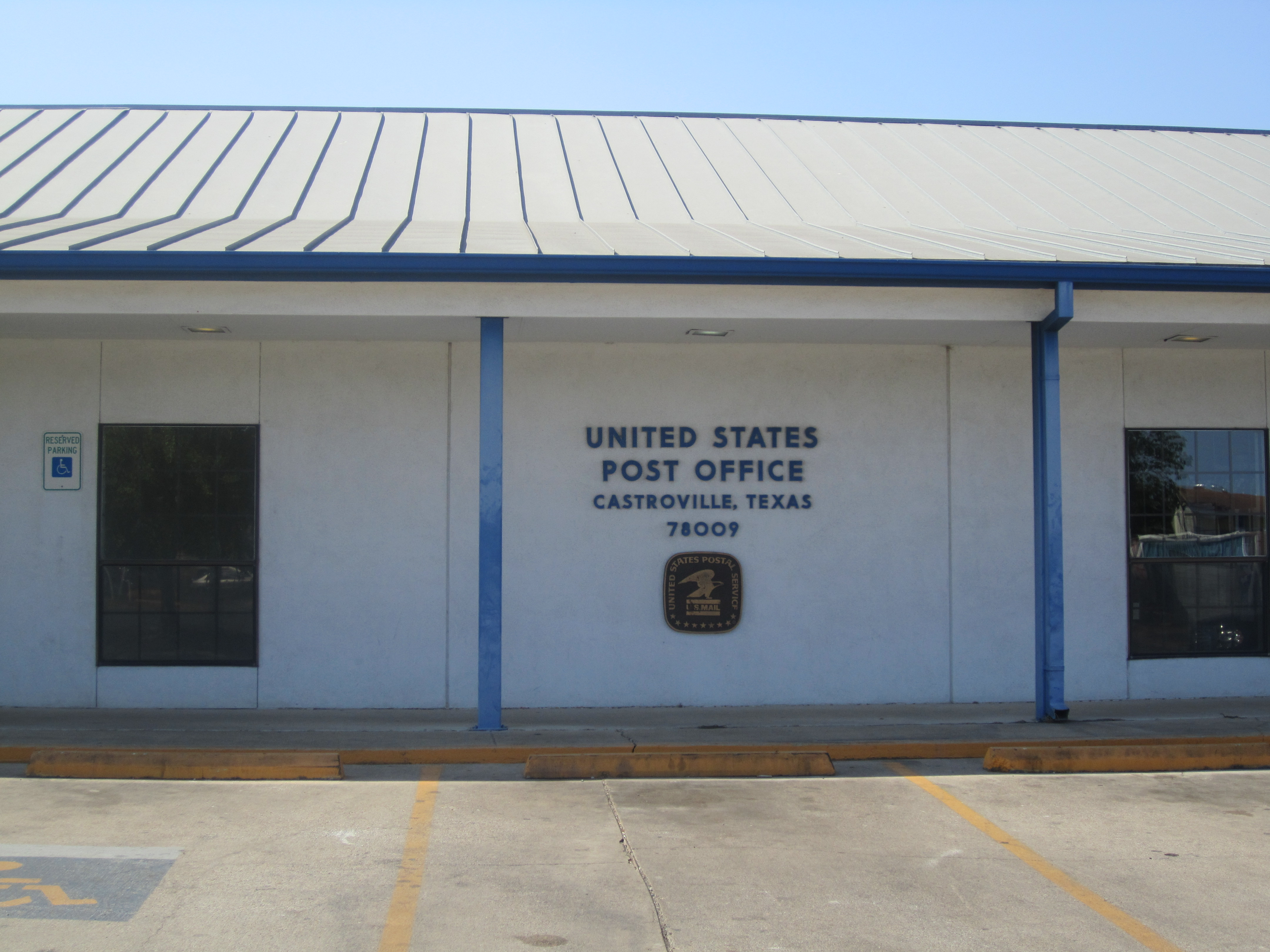 I took photo of U.S. Post Office in Castroville, TX, with Canon camera.